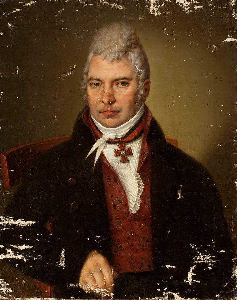 Ozerov Vladislav Alexandrovich